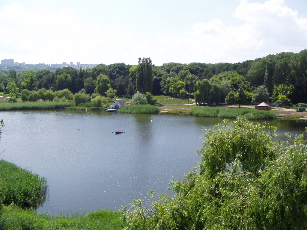 RoseValley from Chisinau, Moldova